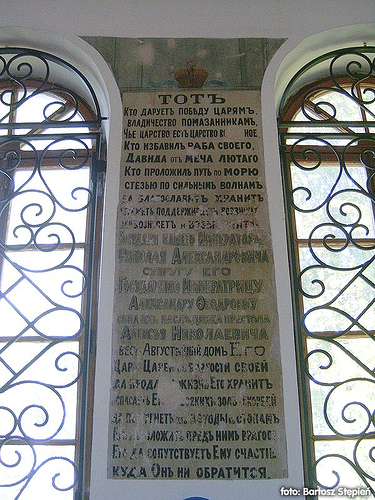 Synagogue in Inowłódz